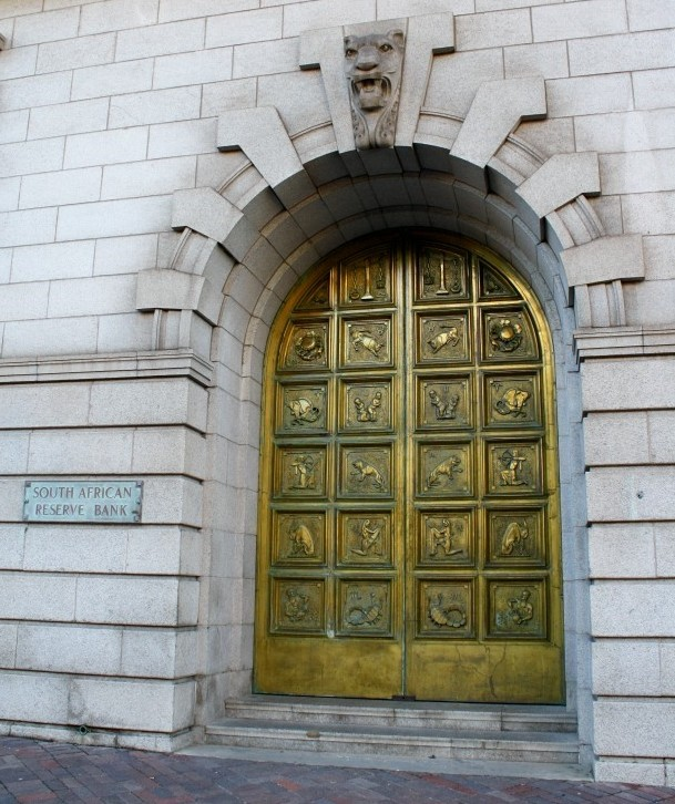 The Bronze Relief Doors (10ft × 6ft) (the signs of the Zodiac) for the S.A Reserve Bank in Port Elizabeth by Professor Robert Bain.